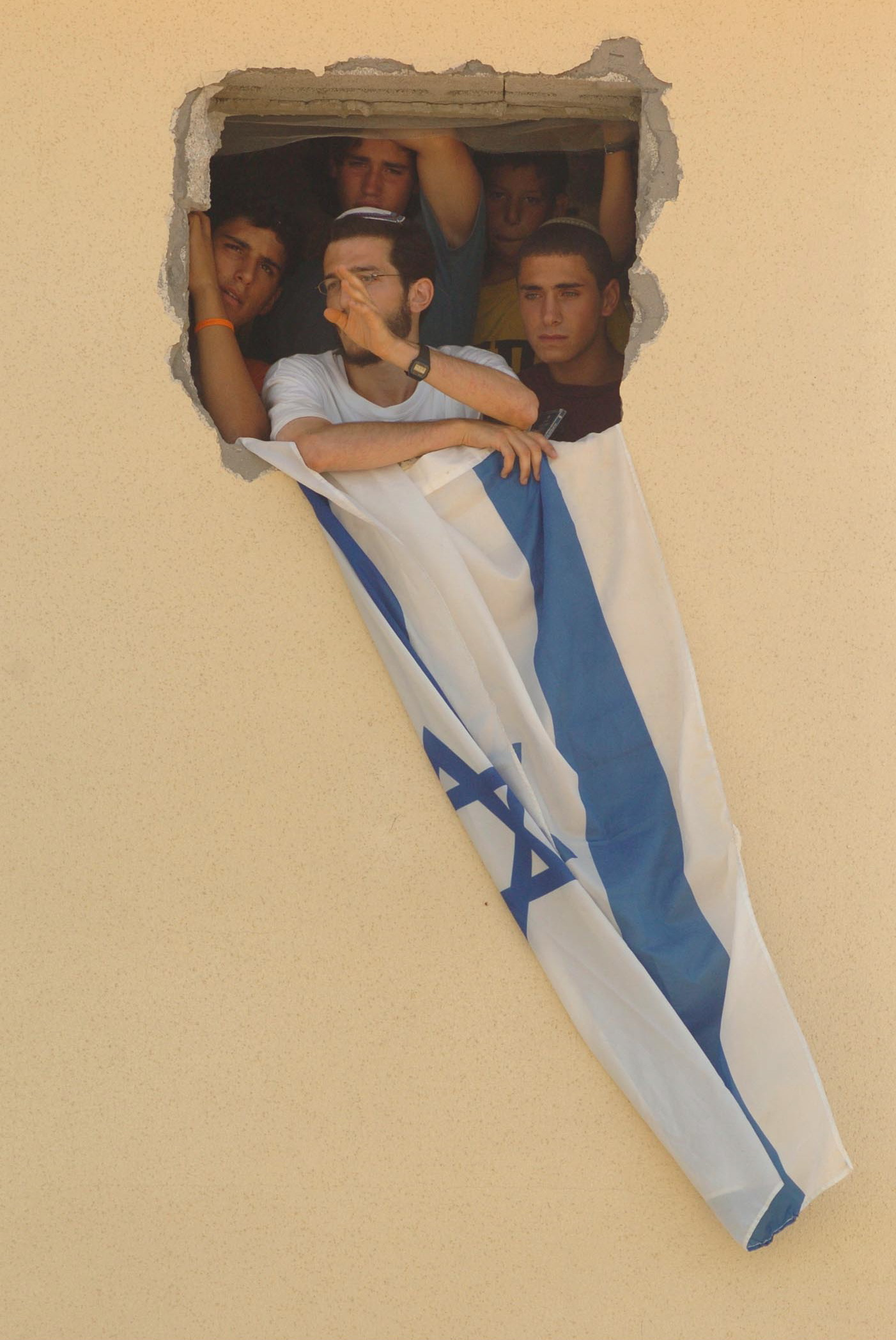 August 17, 2005. A group of residents refuses to evacuate the Israeli community Bedolach. The evacuation of Bedolach was part of the Gaza Disengagement which occurred during the summer of 2005.